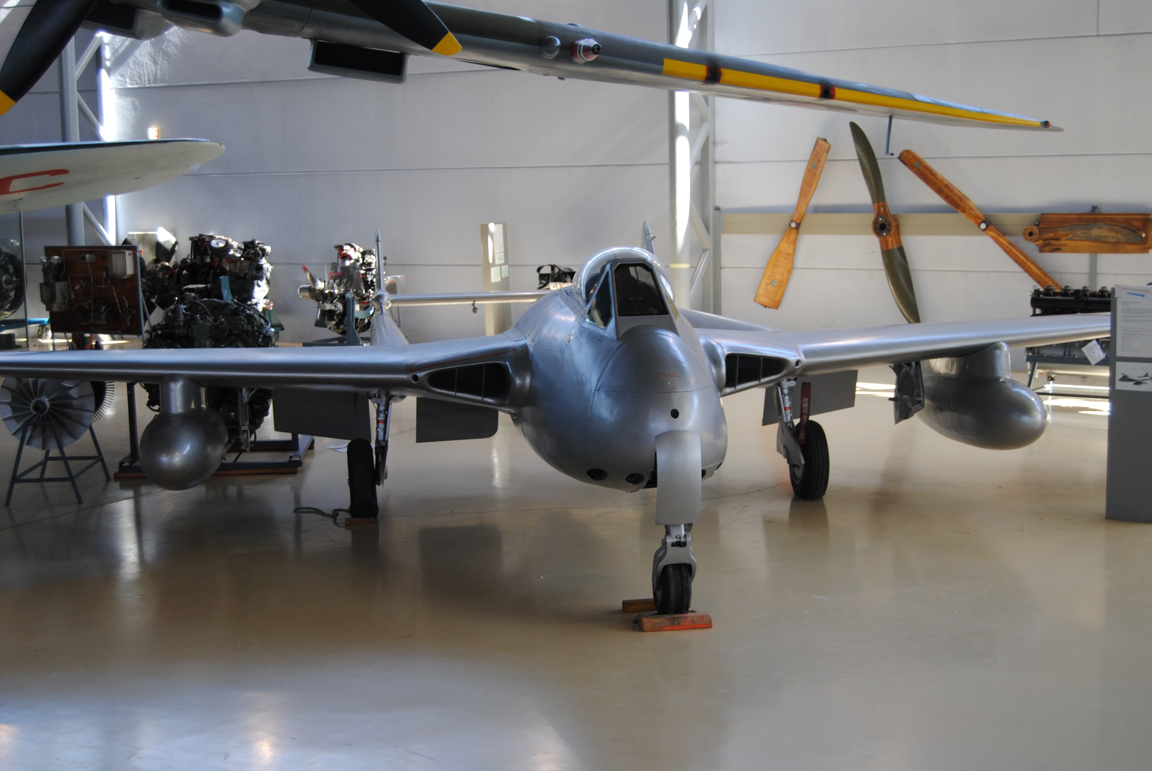 Norwegian De Havilland DH 100 Vampire F.3 displayed at the Norwegian Armed Forces Aircraft Collection